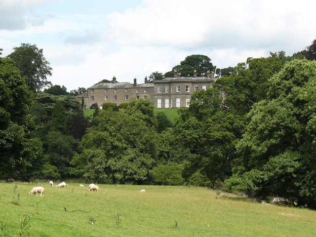 Park land by the Ure The scattering of mature trees identify this as park land, perhaps at one time belonging to Clifton Castle which stands on the other bank of the River Ure [although there is no bridge]. Clifton Castle is a large country house dating from 1802-10. The south front can be seen here, but the main elevation is to the east where there are Ionic columns supporting a classical pediment.